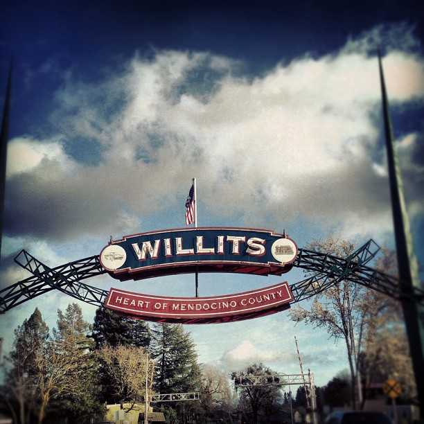 Willits Mendocino County Northern California 8285659895 o